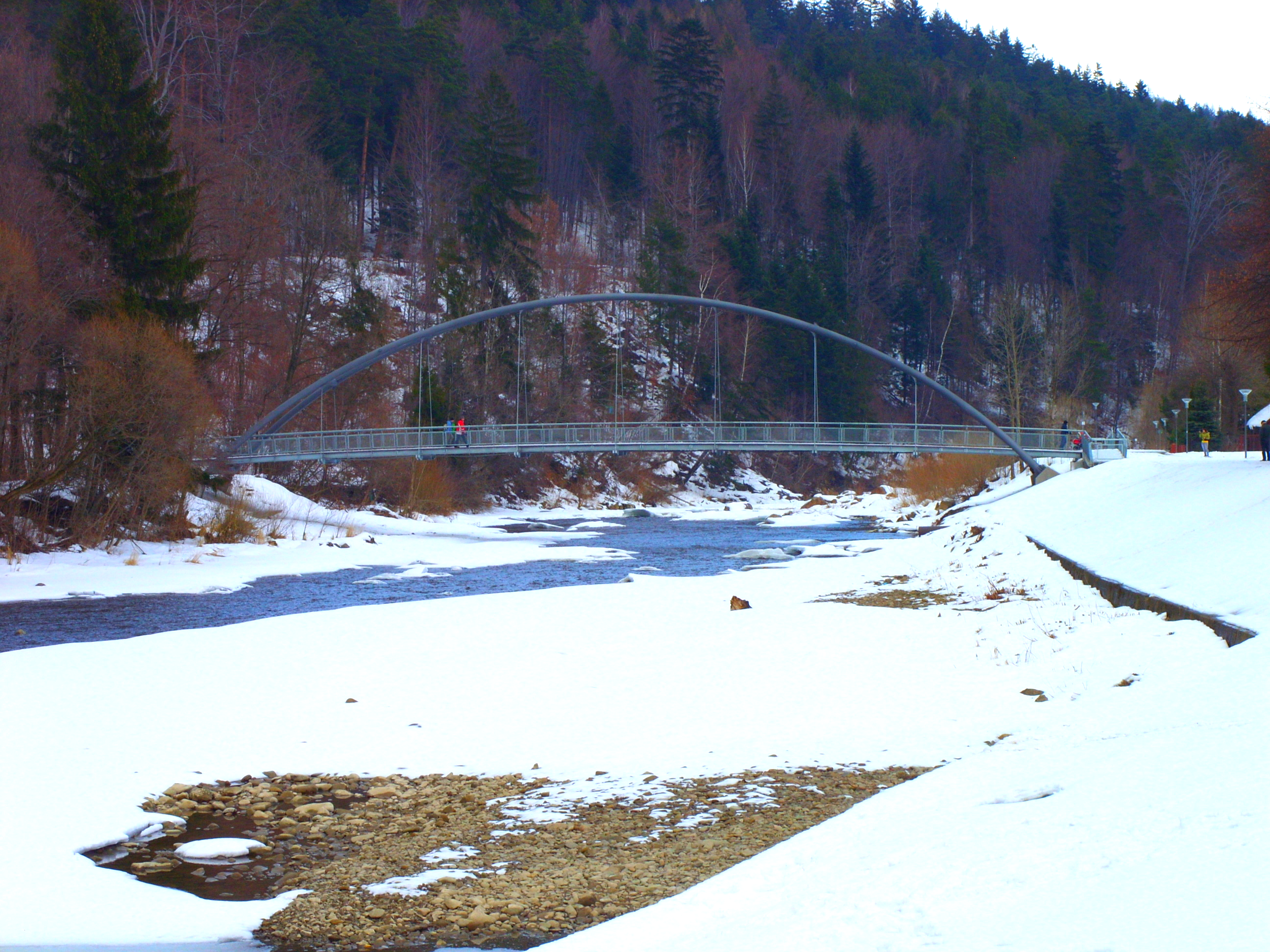 Suspension bridge in Węgierska Górka, Poland